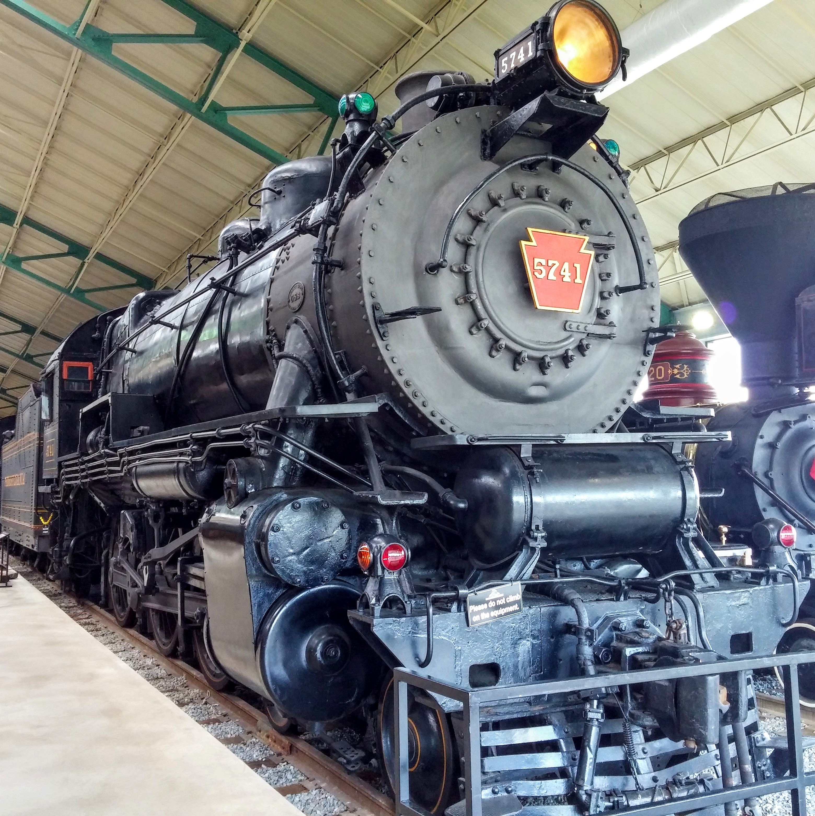 Pennsylvania Railroad G5 #5741 at the Railroad Museum of Pennsylvania on July 31st, 2015.